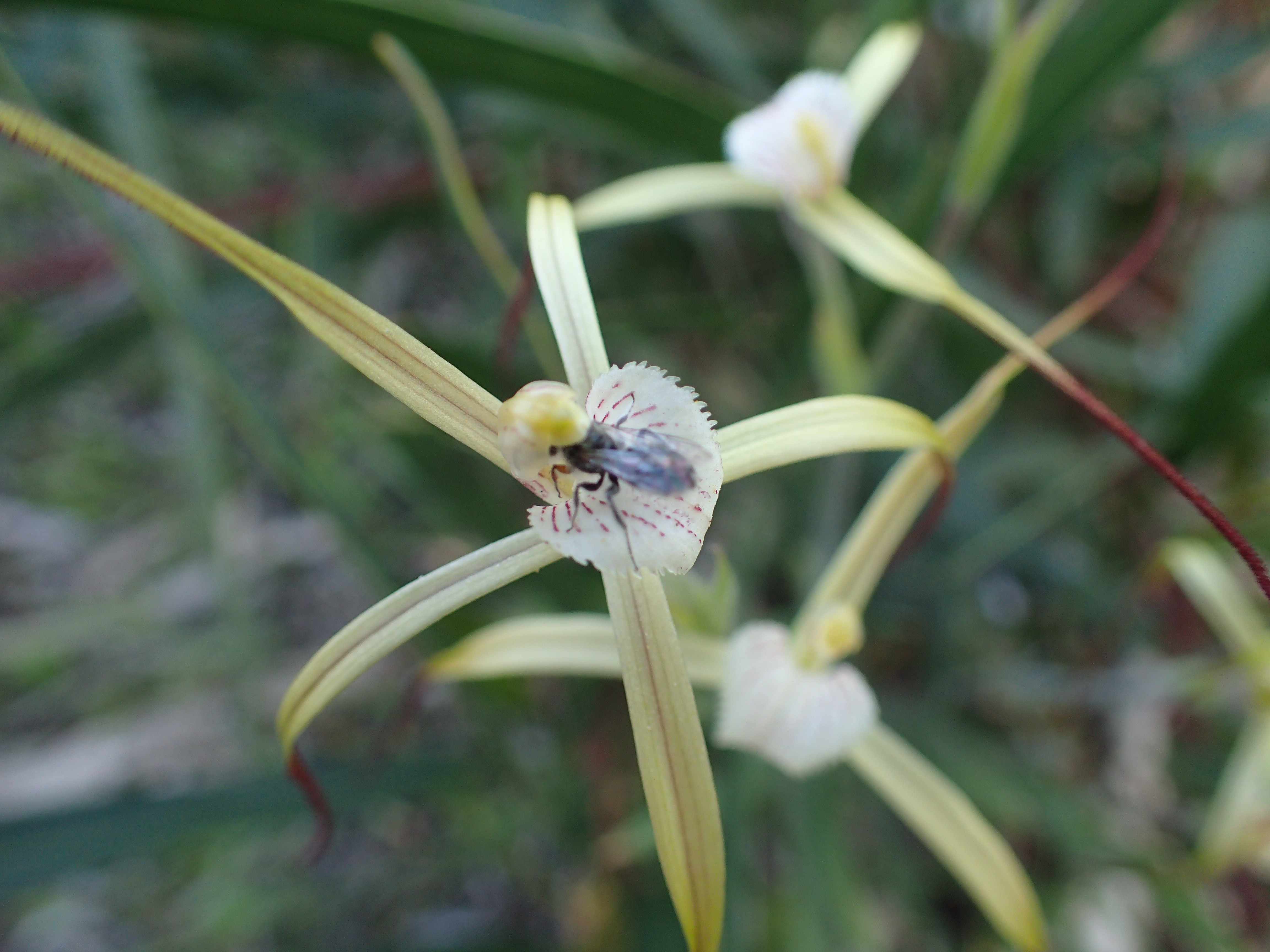 Caladenia denticulata subsp. denticulata growing at the Hill River crossing on the Brand Highway near Badgingarra